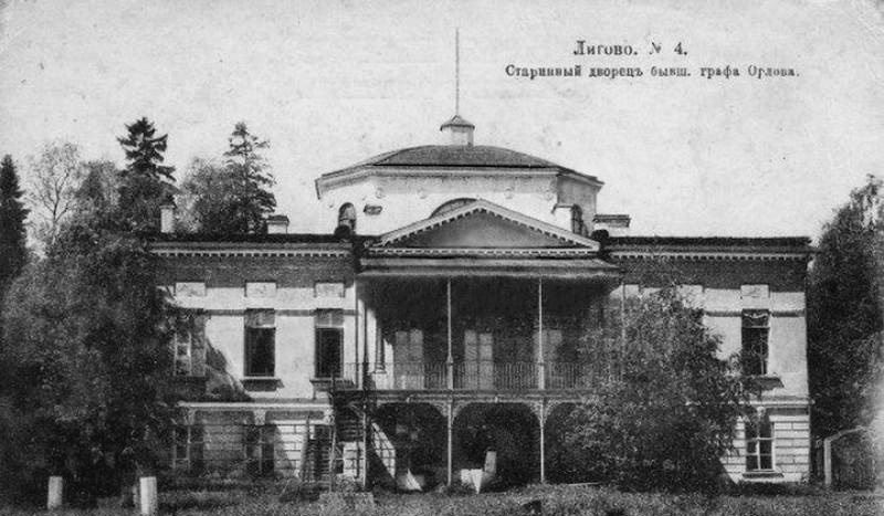 The Buxhoeveden-Kushelev Dacha in Ligovo